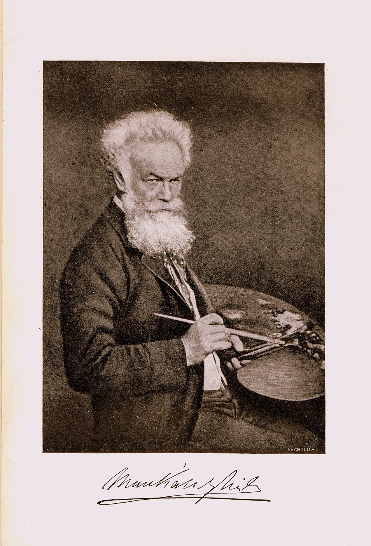 Portrait and signature of Mihály Munkácsy